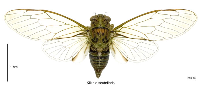 Dorsal view of Kikihia scutellaris photographed by Birgit E. Rhode, Landcare Research New Zealand Ltd.